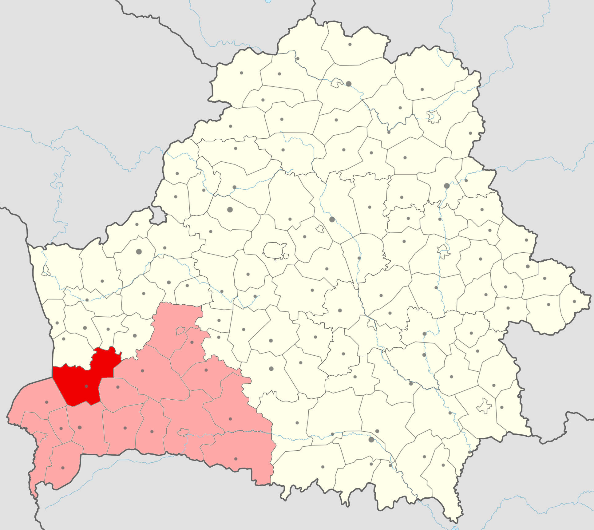 Location of Pružanski rajon (red) in Bresckaja voblasć (light red) in Belarus.